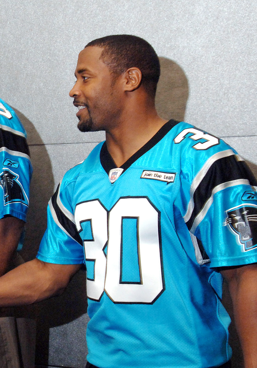 Tech. Sgt. Greg Overbay meets Carolina Panthers safety Mike Minter as part of Operation Welcome Home, inside the Bank of America Stadium, Charlotte N.C., on Oct. 24. OWH allowed military members from the Air Force, Army, Navy and Marines to tour the stadium and meet several players from the Carolina Panthers as a thank you after deploying in support of Operations Iraqi Freedom and Enduring Freedom. Sergeant Overbay is in the Air National Guard and is a tactical air controller with the 118th Air Support Operations Squadron, New London, N.C.